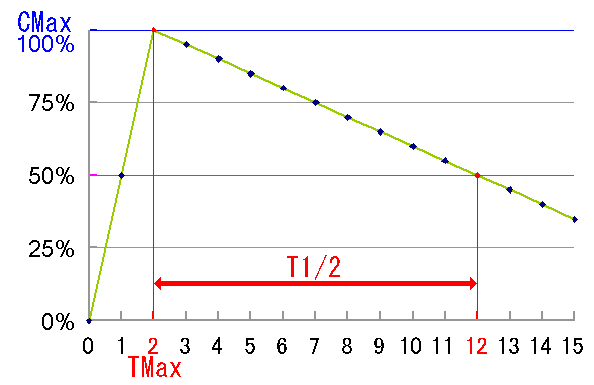 The example graph medicational half life time. The half life(T1/2) is 10h. 薬物の半減期を10時間とした場合のグラフ（の例）。